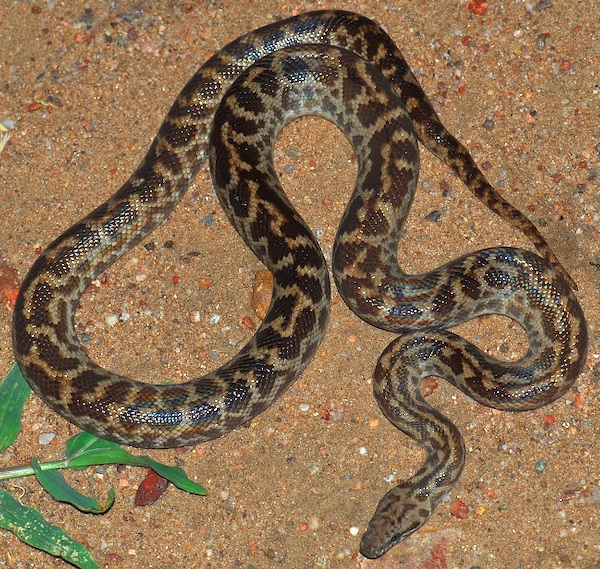 Spotted python (Antaresia maculosa). Taken at Theodore, Queensland, Australia.